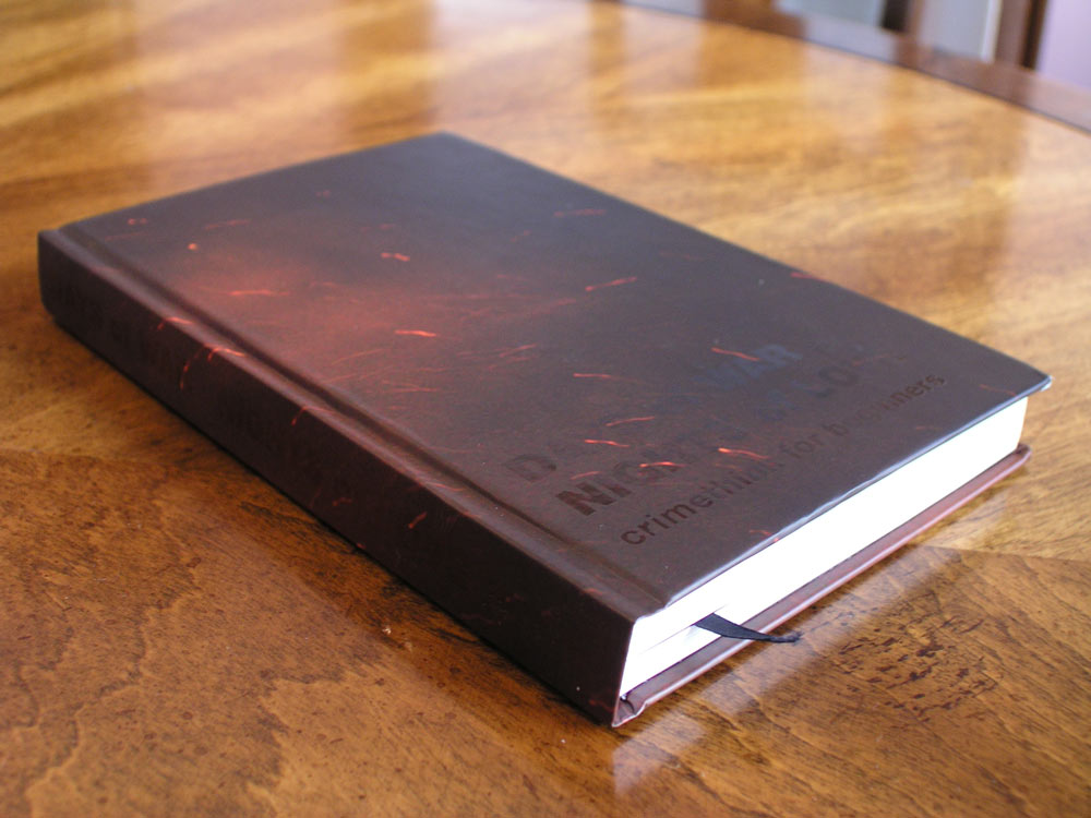 days of war, nights of love ne plus ultra edition